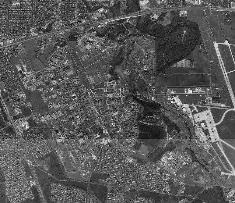 USGS digital orthophoto of Lackland Air Force Base in Texas